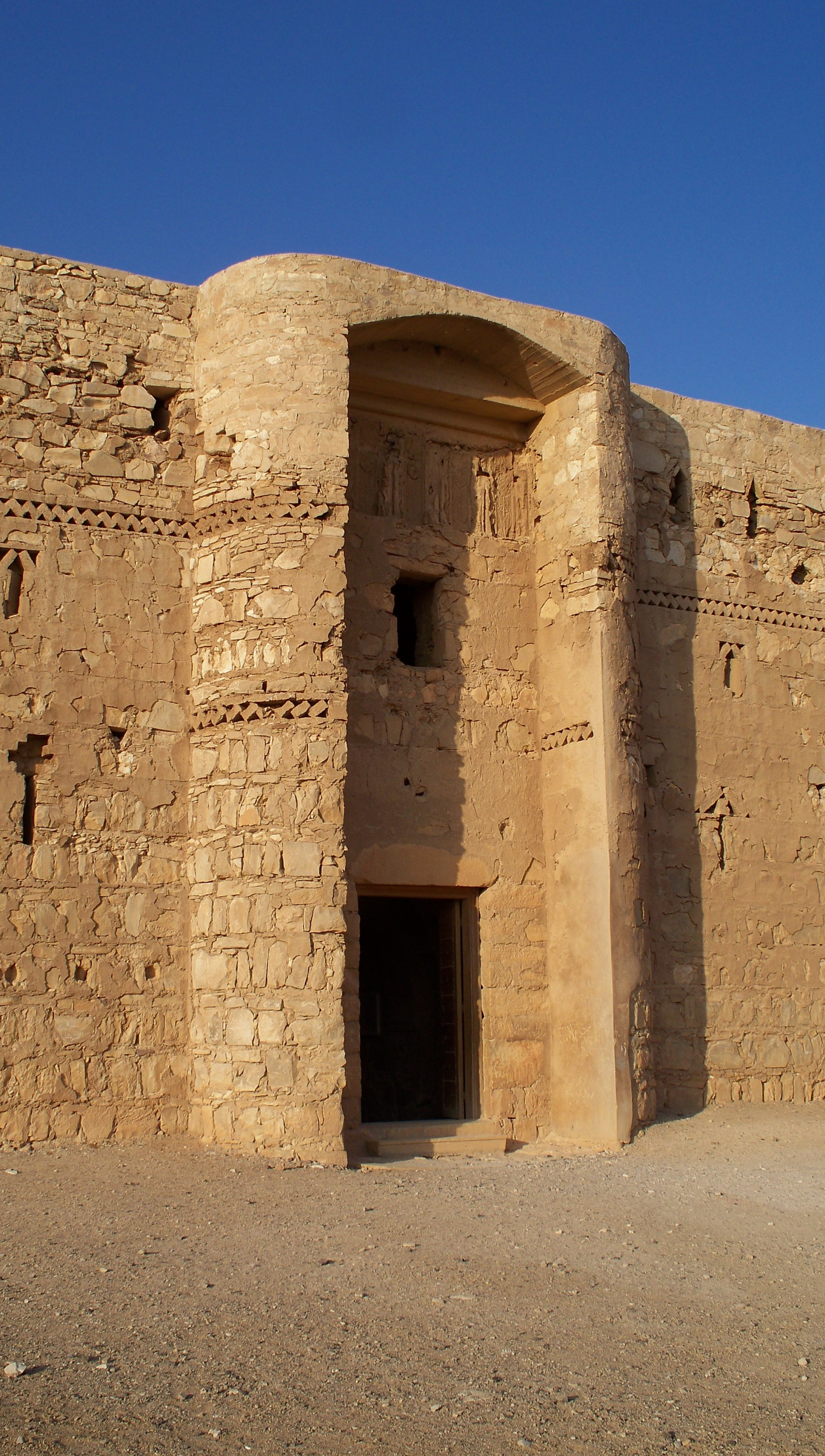 The entrance gate of Qasr Kharana.